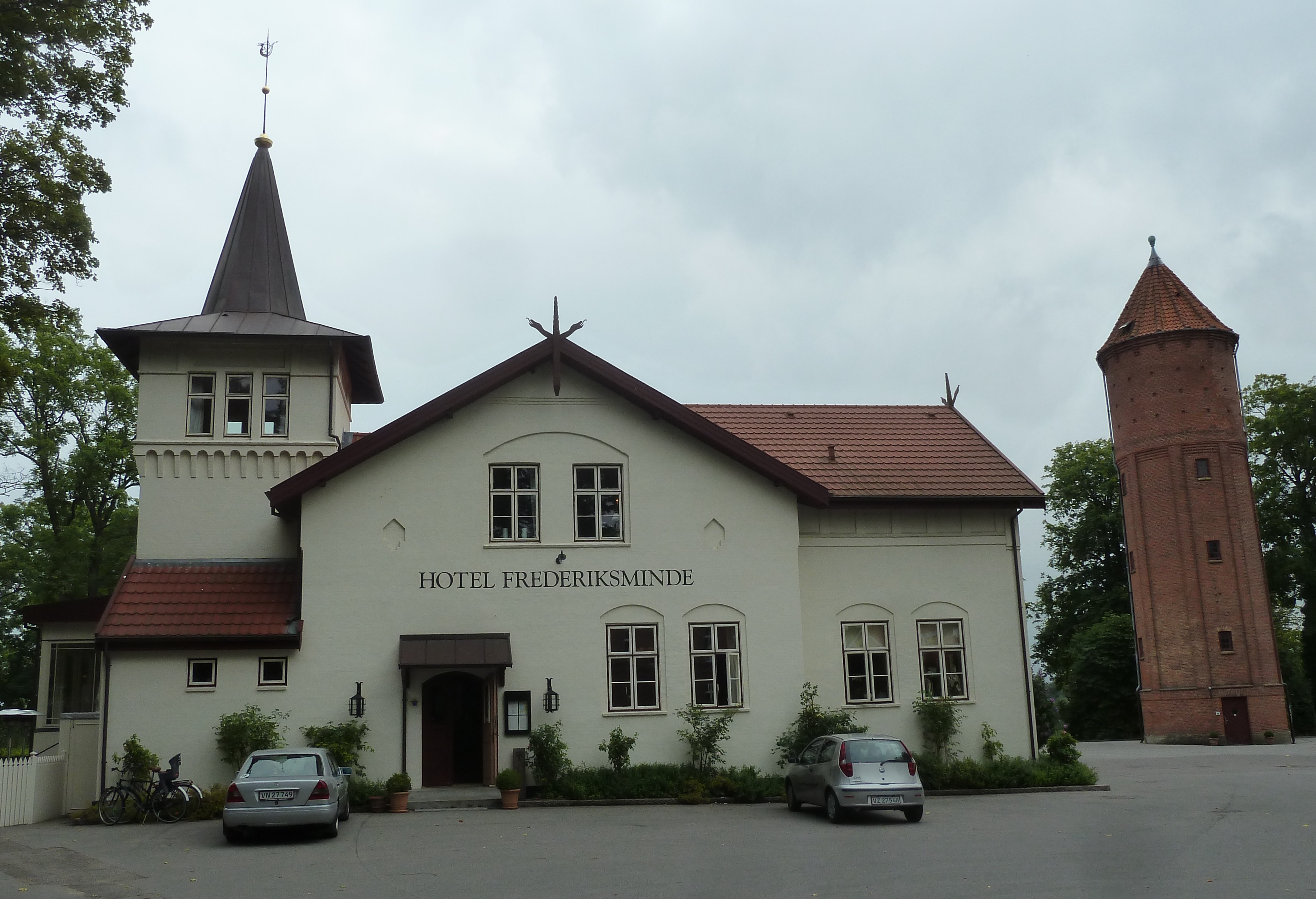 Hotel Frederiksminde in Præstø, Denmark